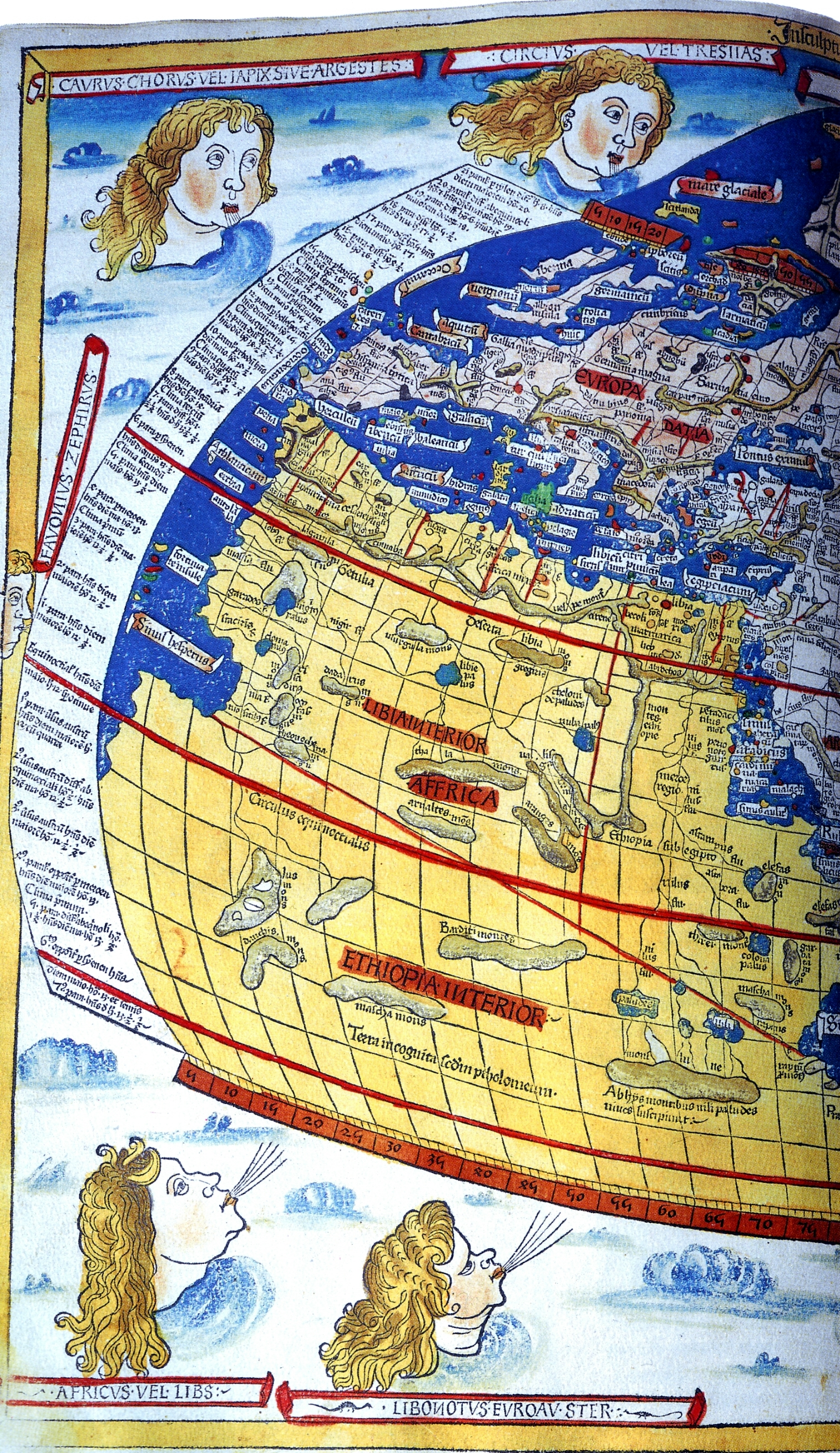 The left half of the world map from Holle's edition of Ptolemy's Geography, employing his second projection.